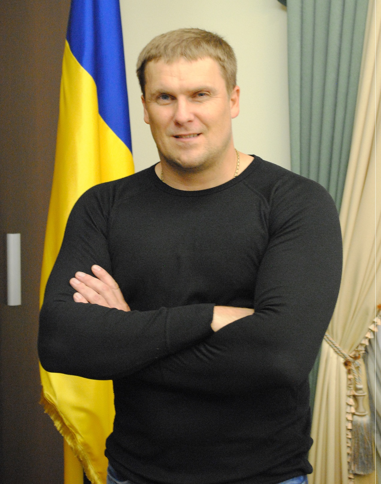 ТроянВадим